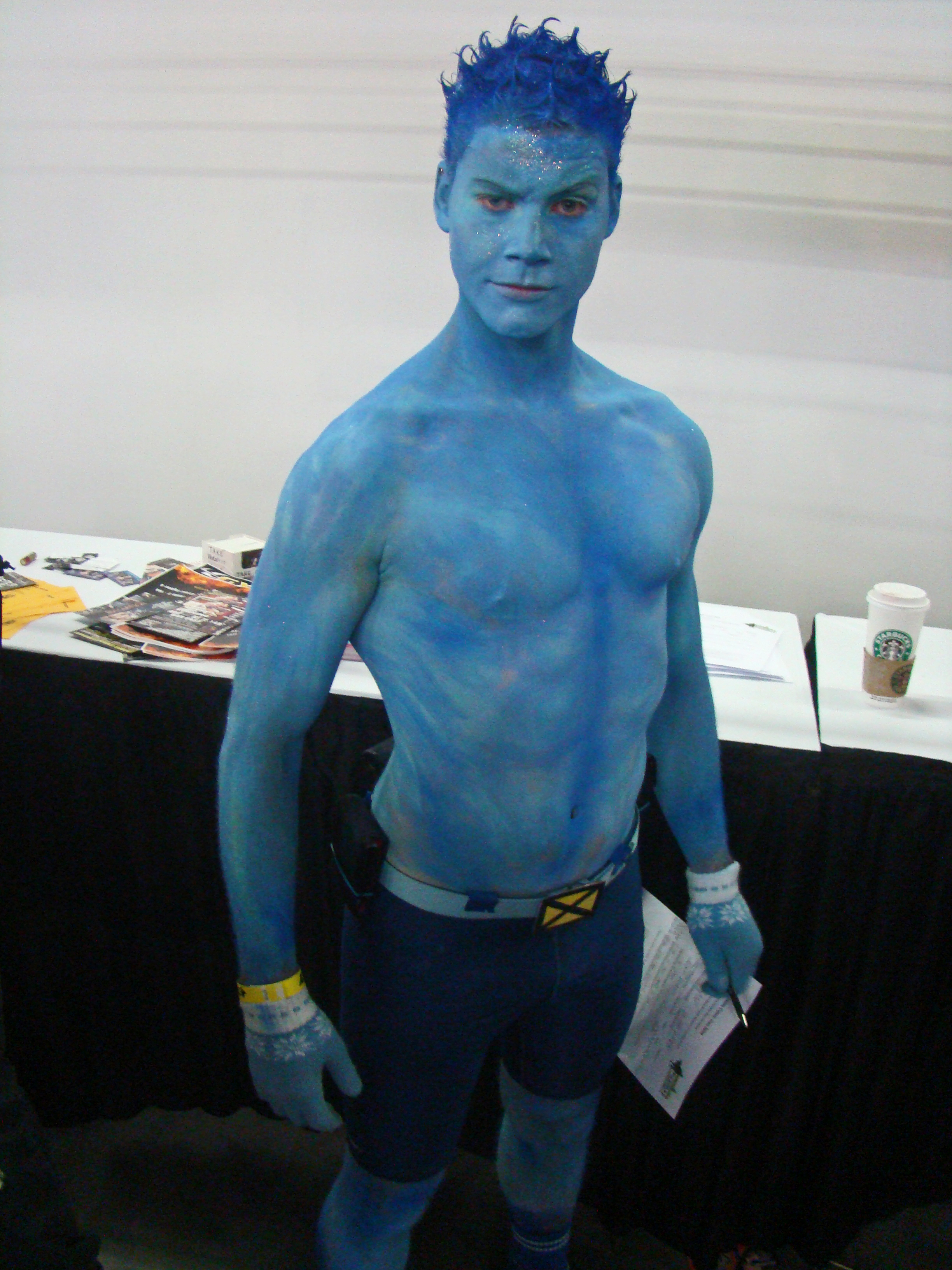 Iceman, Big Apple Con, Saturday October 17, 2009. New York City. This guy was part of a group of "best friends for life," which I thought was very sweet. They were all supernice and friendly, and had tons of folks taking pictures of their very cool and clever DIY X-Men Costumes. Big Apple Con, Saturday October 17, 2009. New York City. A big thanks for everyone at the Con who let me take their picture. If you see yourself in my pictures let me know at: loser [at] istolethe [dot] tv.